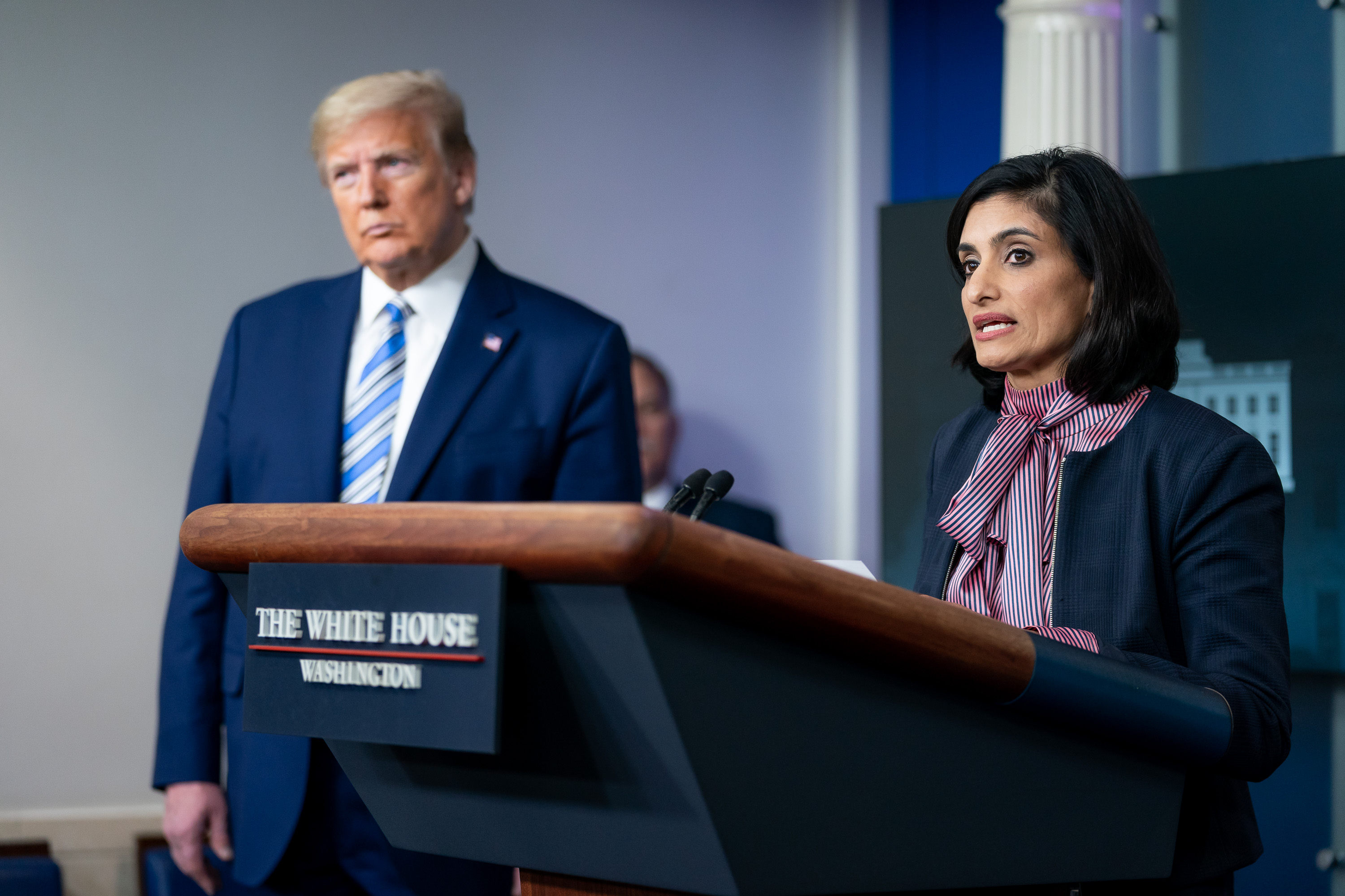 Administrator for the Centers for Medicare and Medicaid Services Seema Verma, joined by President Donald J. Trump, Vice President Mike Pence and members of the White House Coronavirus Task Force, delivers remarks during a coronavirus update briefing Sunday, April 19, 2020, in the James S. Brady Press Briefing Room of the White House. (Official White House Photo by Tia Dufour)